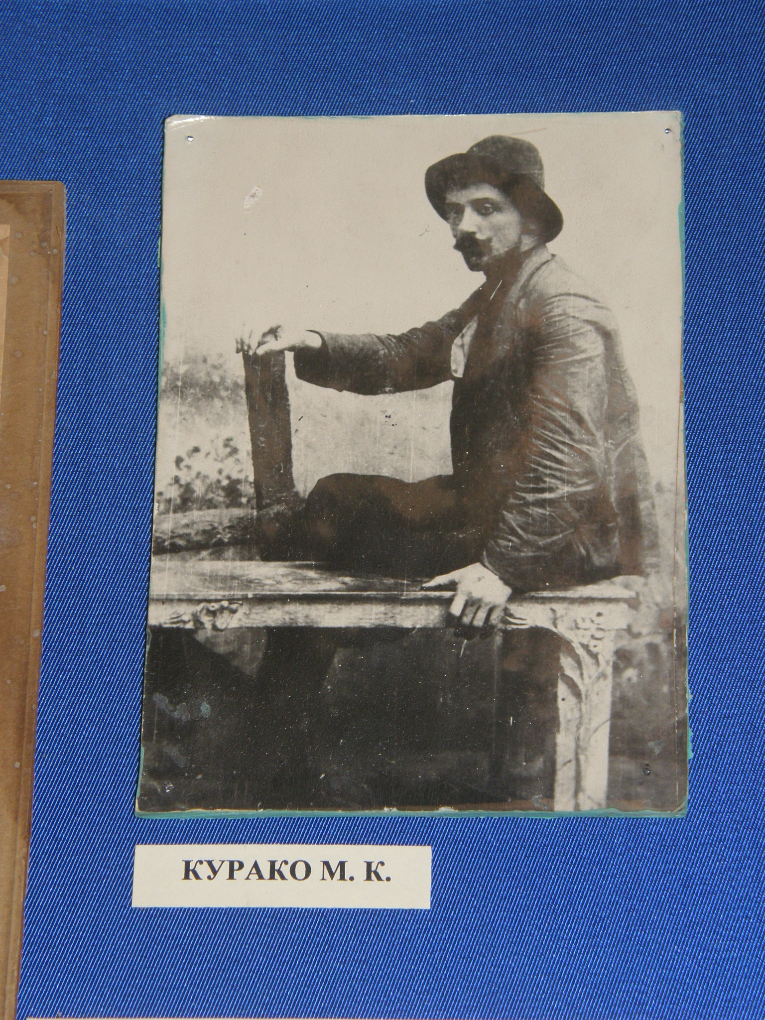 Photo from the Museum of History of Donetsk metallurgical plant